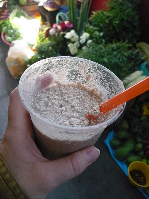 A cup of tejate bought at a market in Oaxaca de Juárez, Oaxaca Mexico.